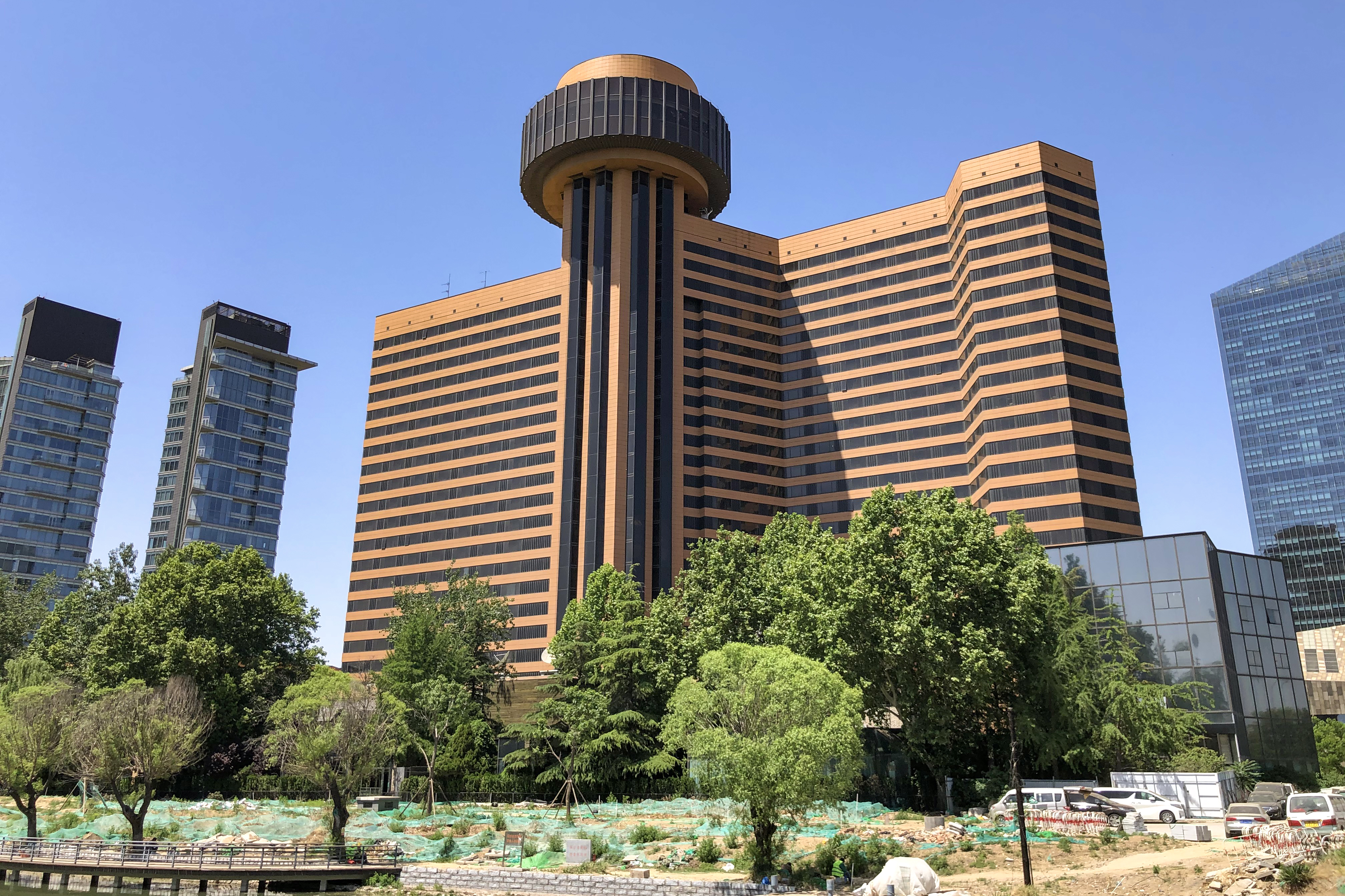 At a better day.